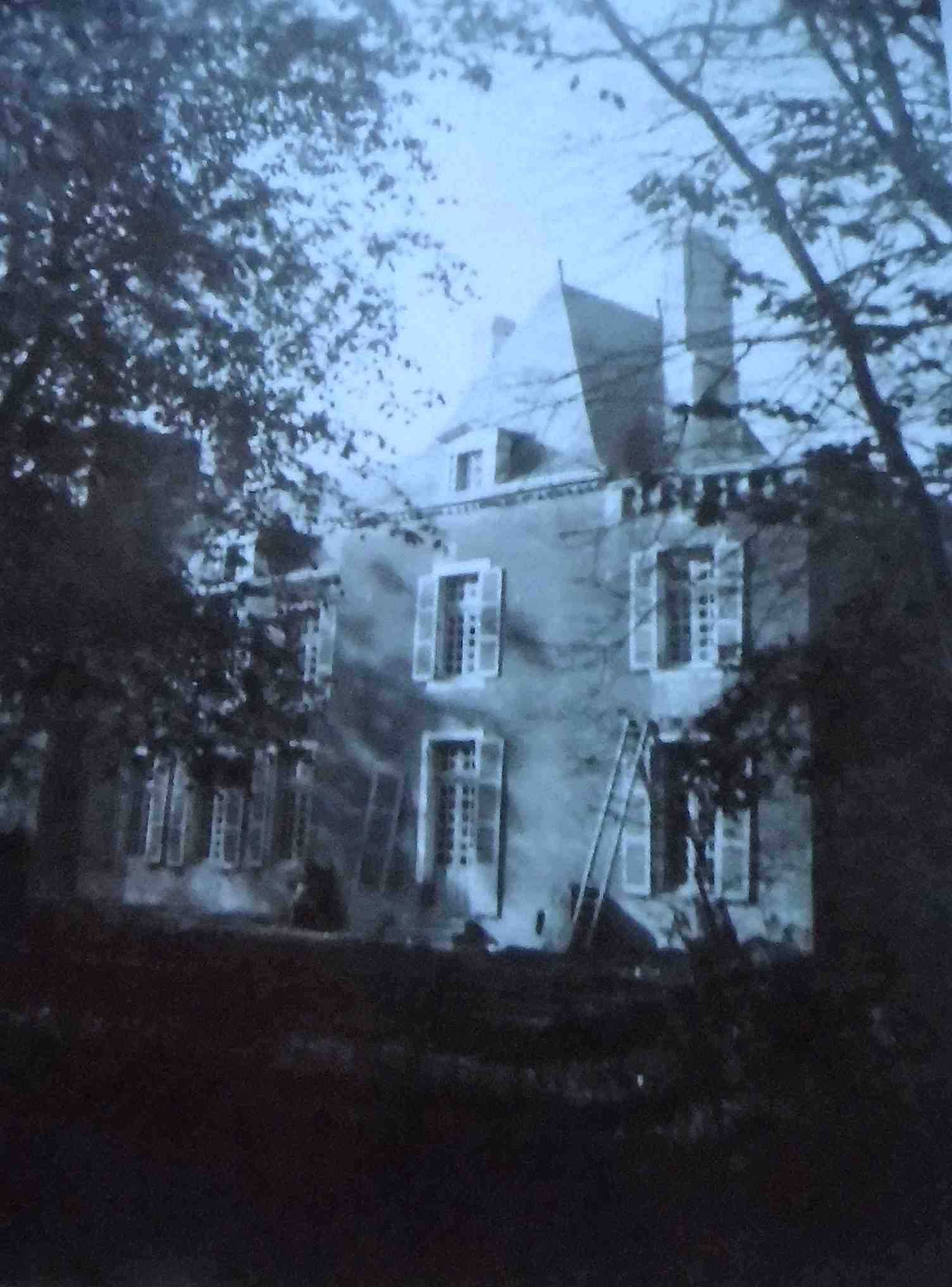 Manor L'Essongère about 1936